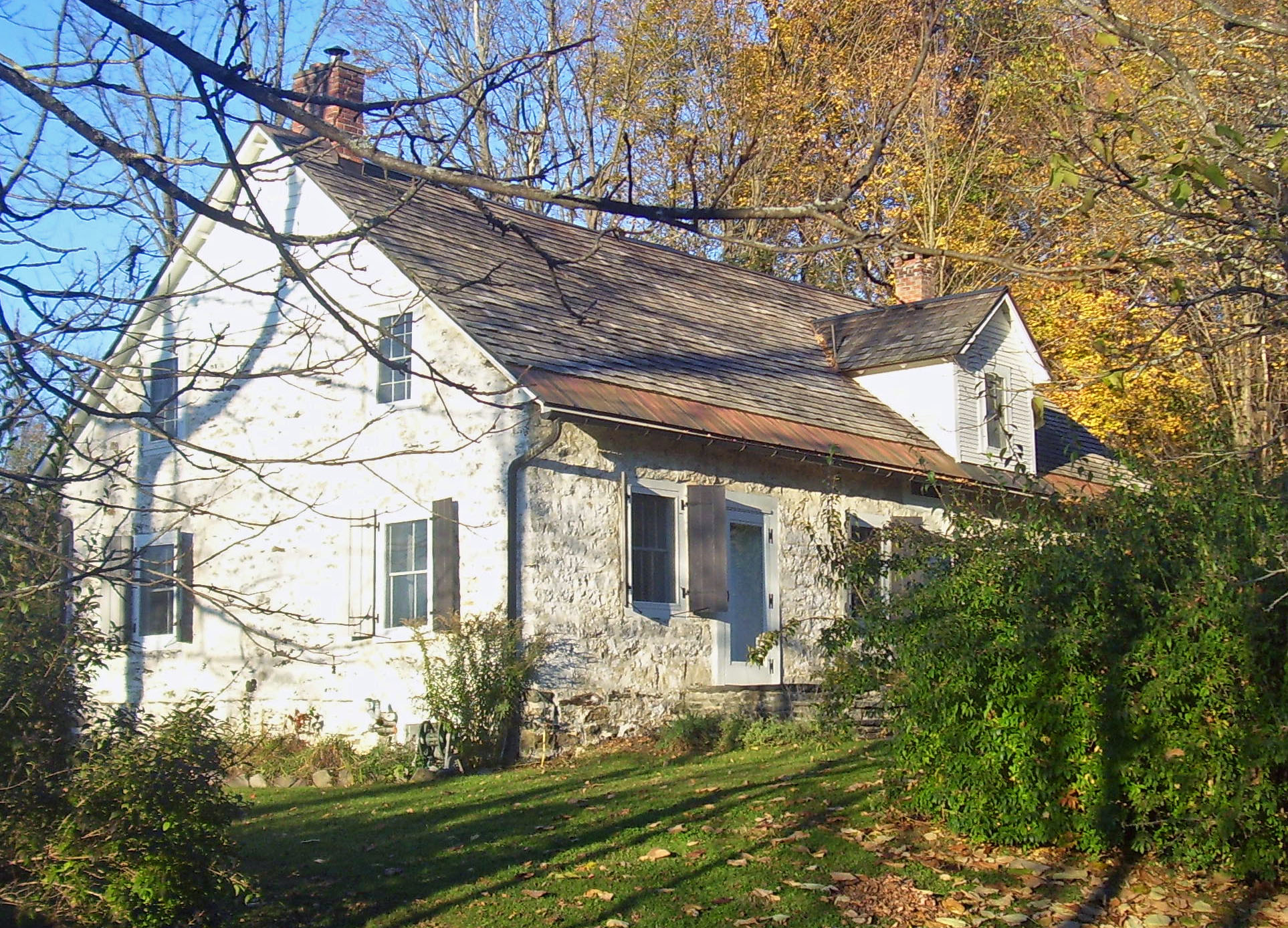 Ephraim Dupuy Stone House, Accord, NY, USA